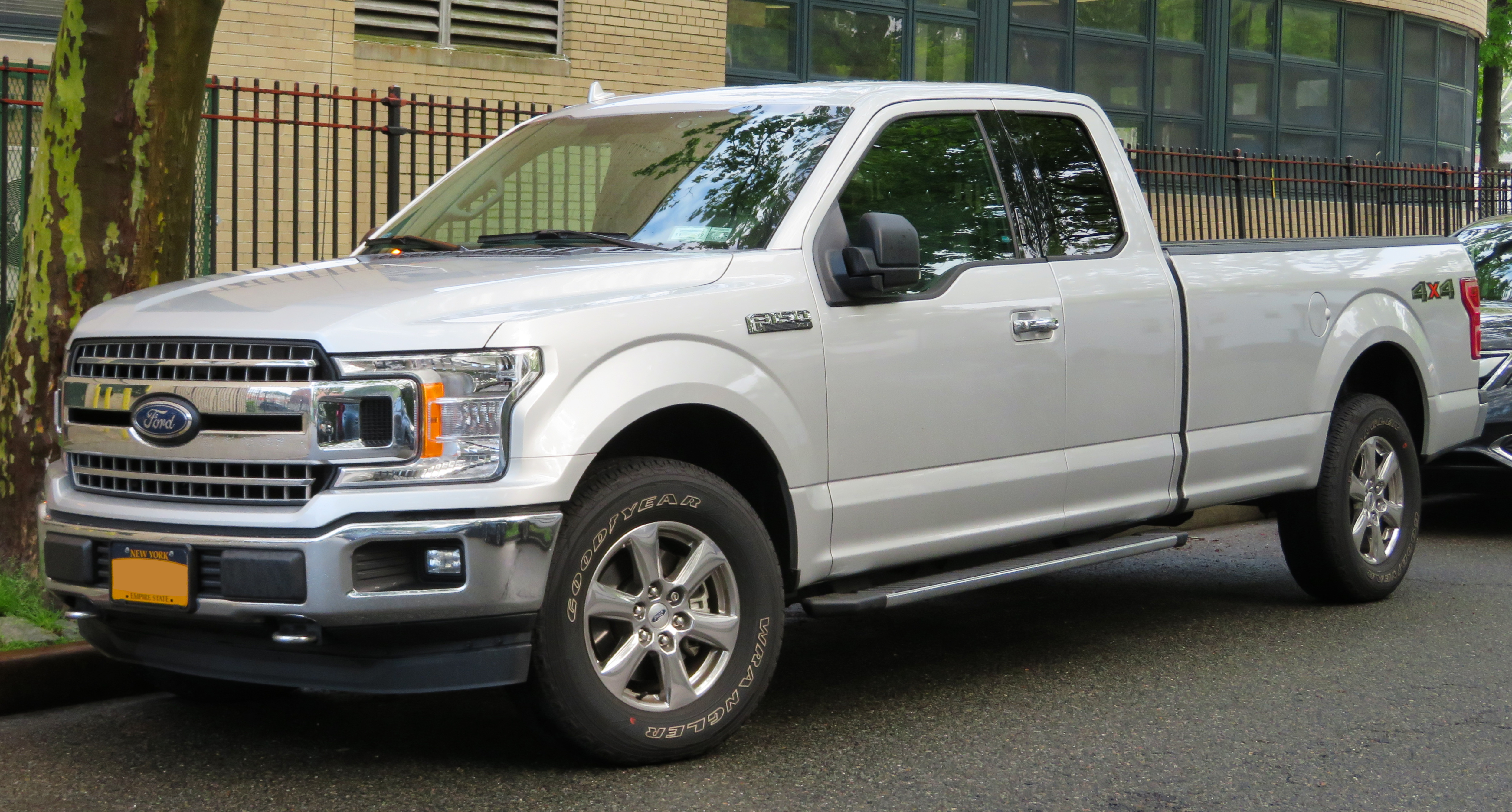 Photographed in Queens, New York